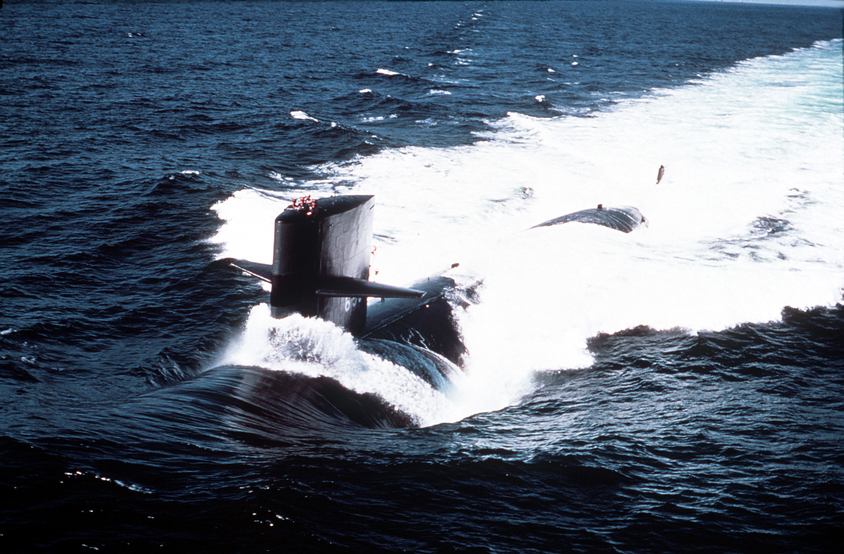 A port bow view of the nuclear-powered attack submarine USS RAY (SSN-653) underway near Naval Station, Norfolk, Virginia.Location: HAMPTON ROADS, VIRGINIA (VA) UNITED STATES OF AMERICA (USA)